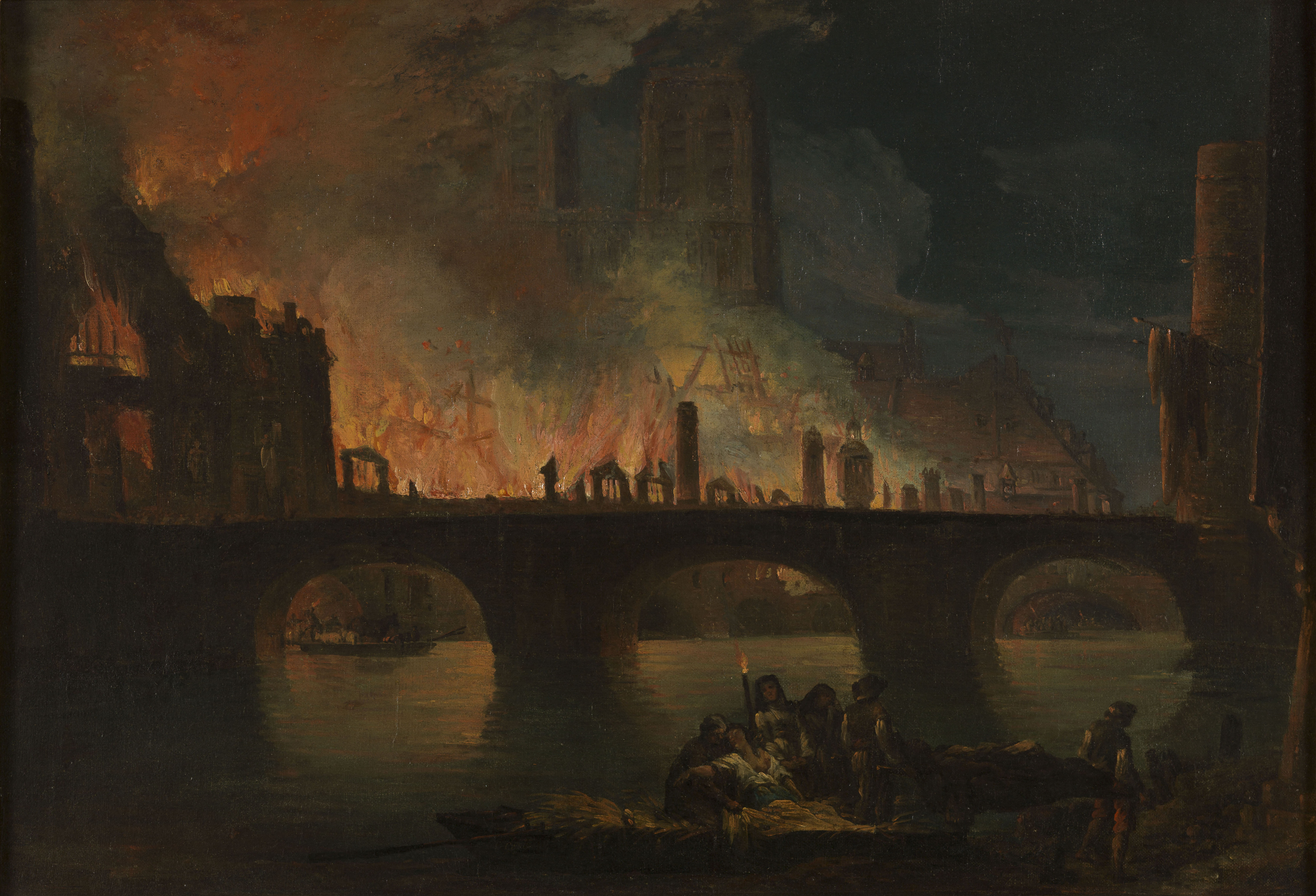 Jean-Baptiste François Genillion, ou Genillon (1750-1829). "L'incendie de l'Hôtel-Dieu, en 1772". Huile sur toile. 1772. Paris, musée Carnavalet.